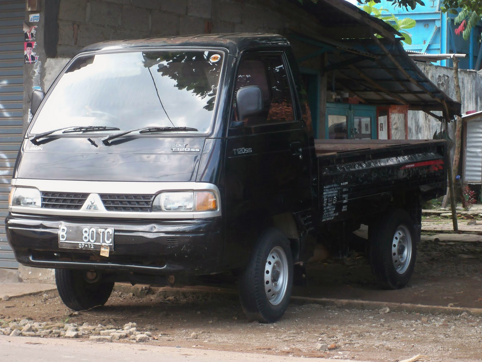 Mitsubishi Colt T120SS, a rebadged Suzuki Carry Futura especially for the Indonesian market.